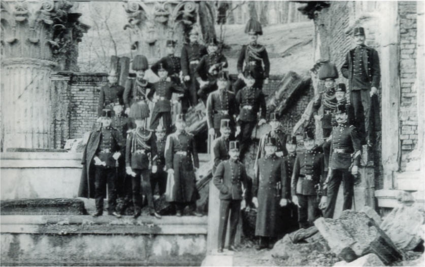 One of Austria-Hungaries imperial guards, the Leibgardeinfateriekompanie, poses in front of the roman ruin in the garden of Schönbrunn castle